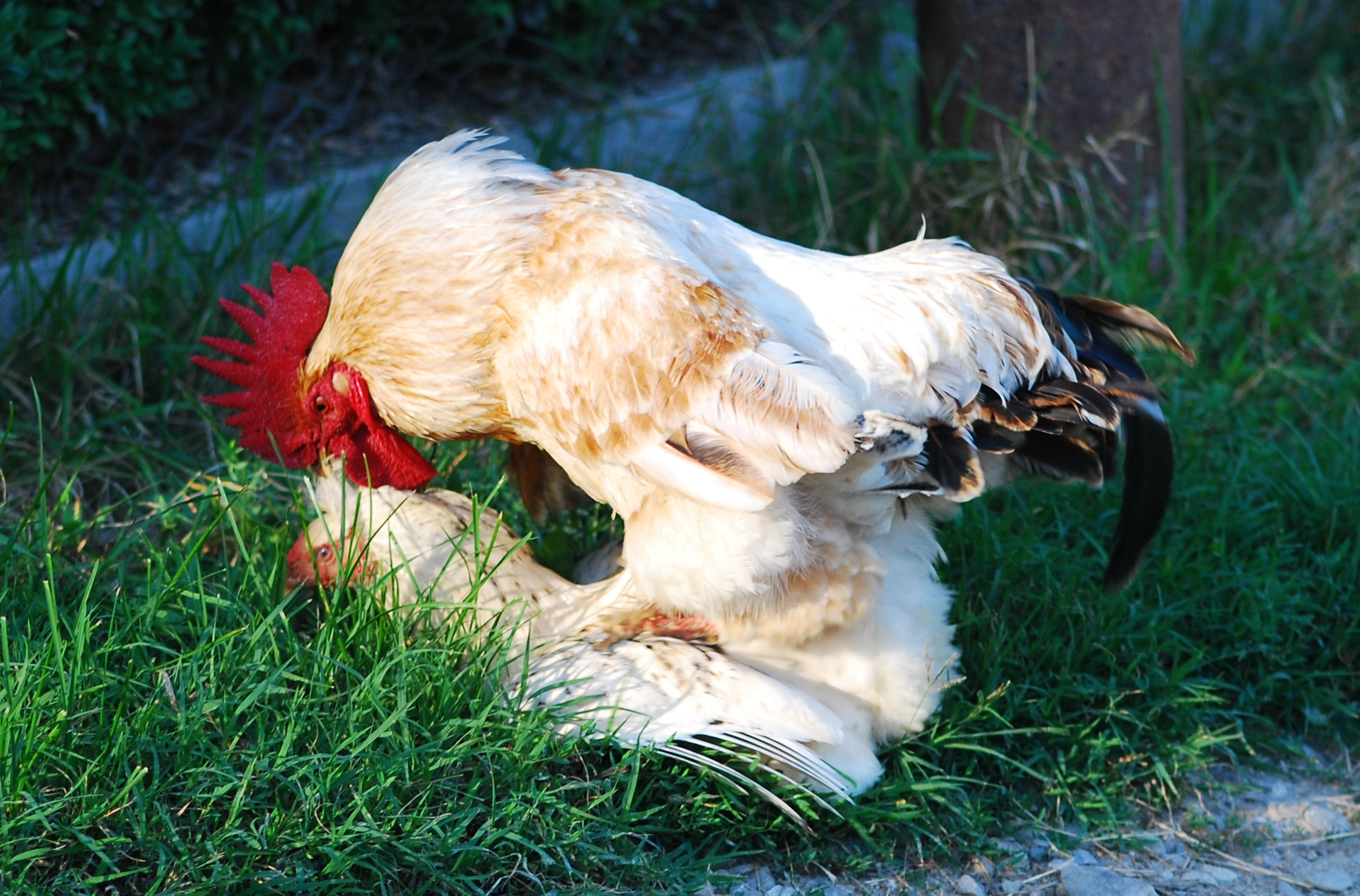 A Sussex rooster and chicken copulating